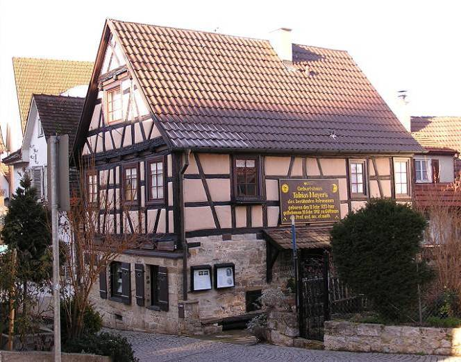 Birthplace of the astronomer Tobias Mayer in Marbach am Neckar (Germany)